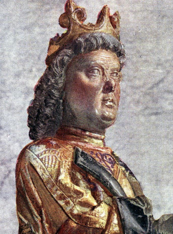 King Carl II (VIII[sic] Knutsson Bonde) of Sweden as sculpted in the 1480’s by Bernt NotkePlace: Gripsholm, Sweden